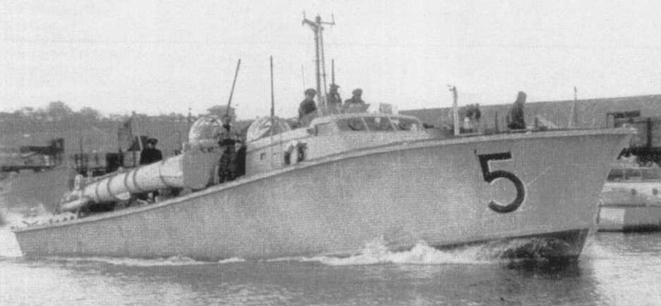 The Romanian motor torpedo boat Vântul, part of the Vedenia class